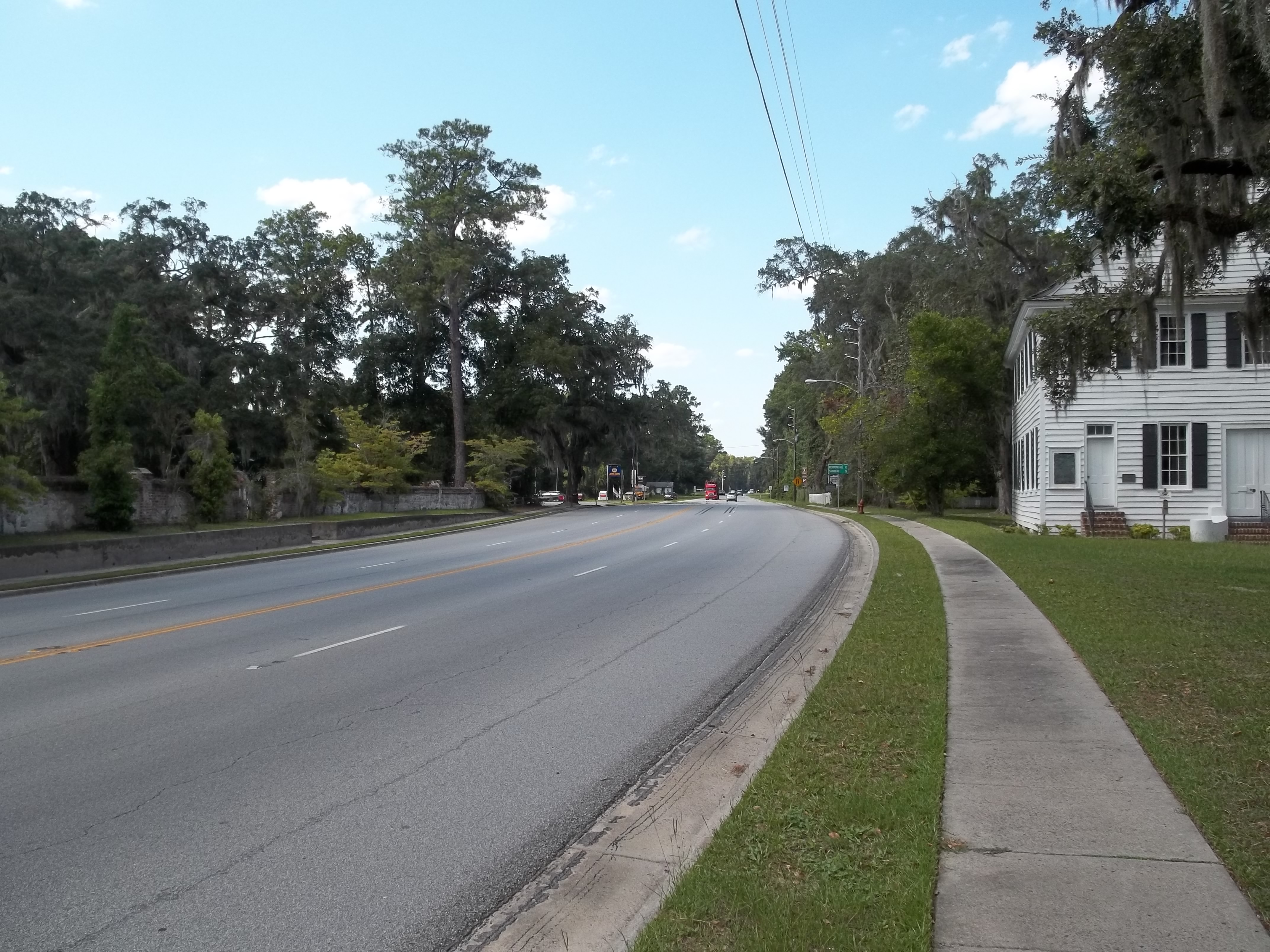 Midway, Georgia: U.S. 17, looking north